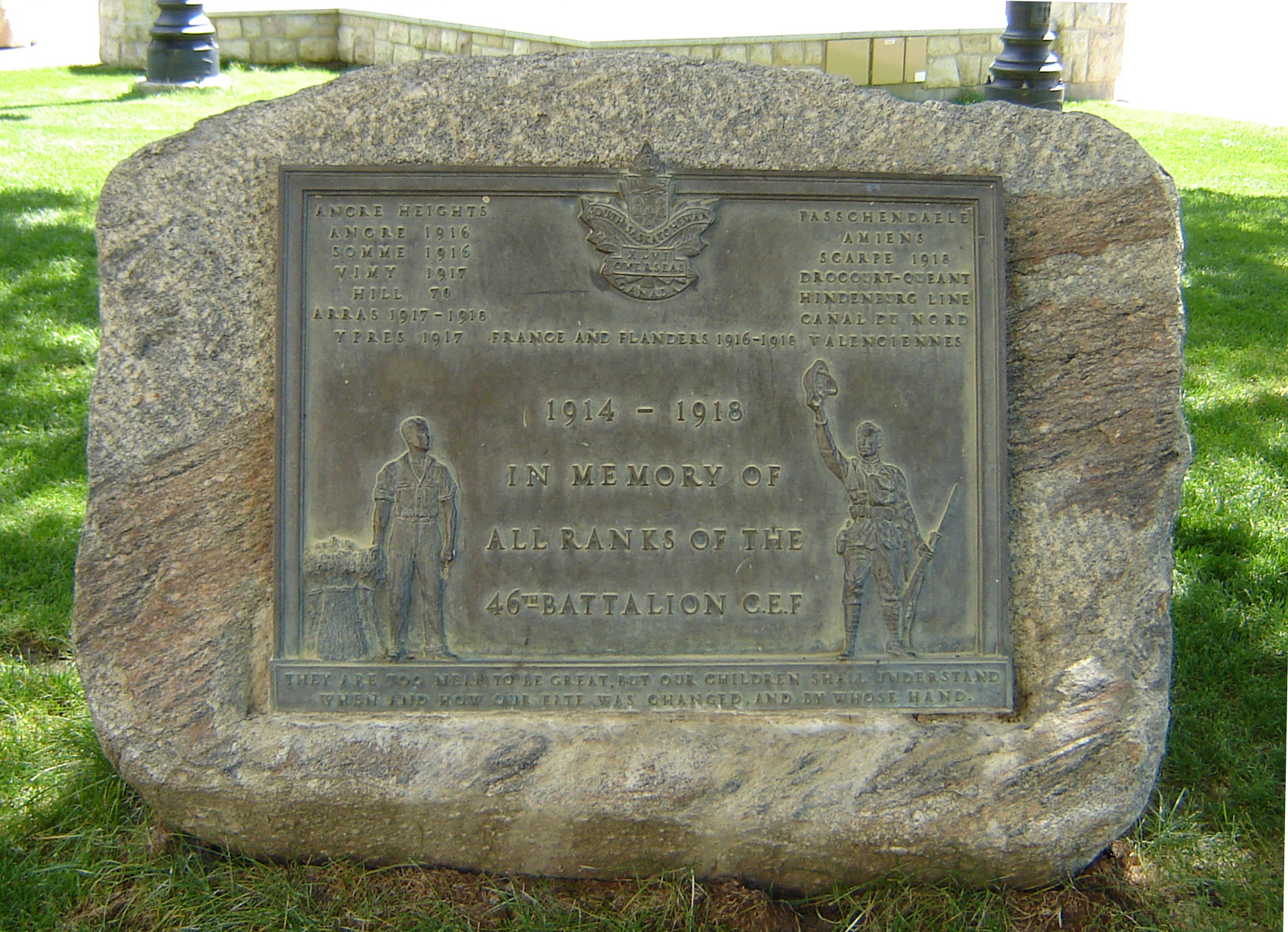 In Memory of All Ranks of the 46th Batallion C.E.F. 1914-1918